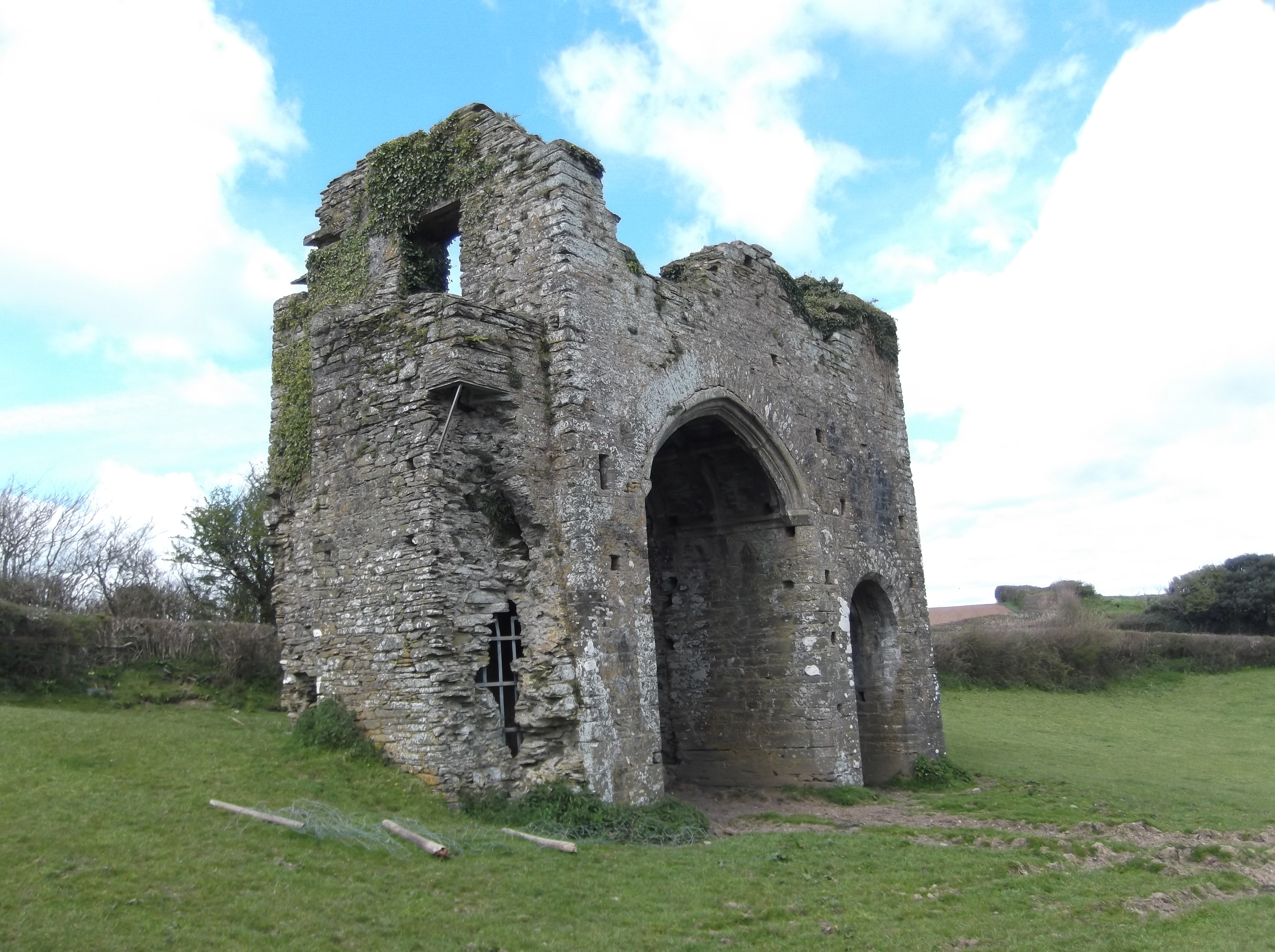 Photograph of the remains of Cornworthy Priory